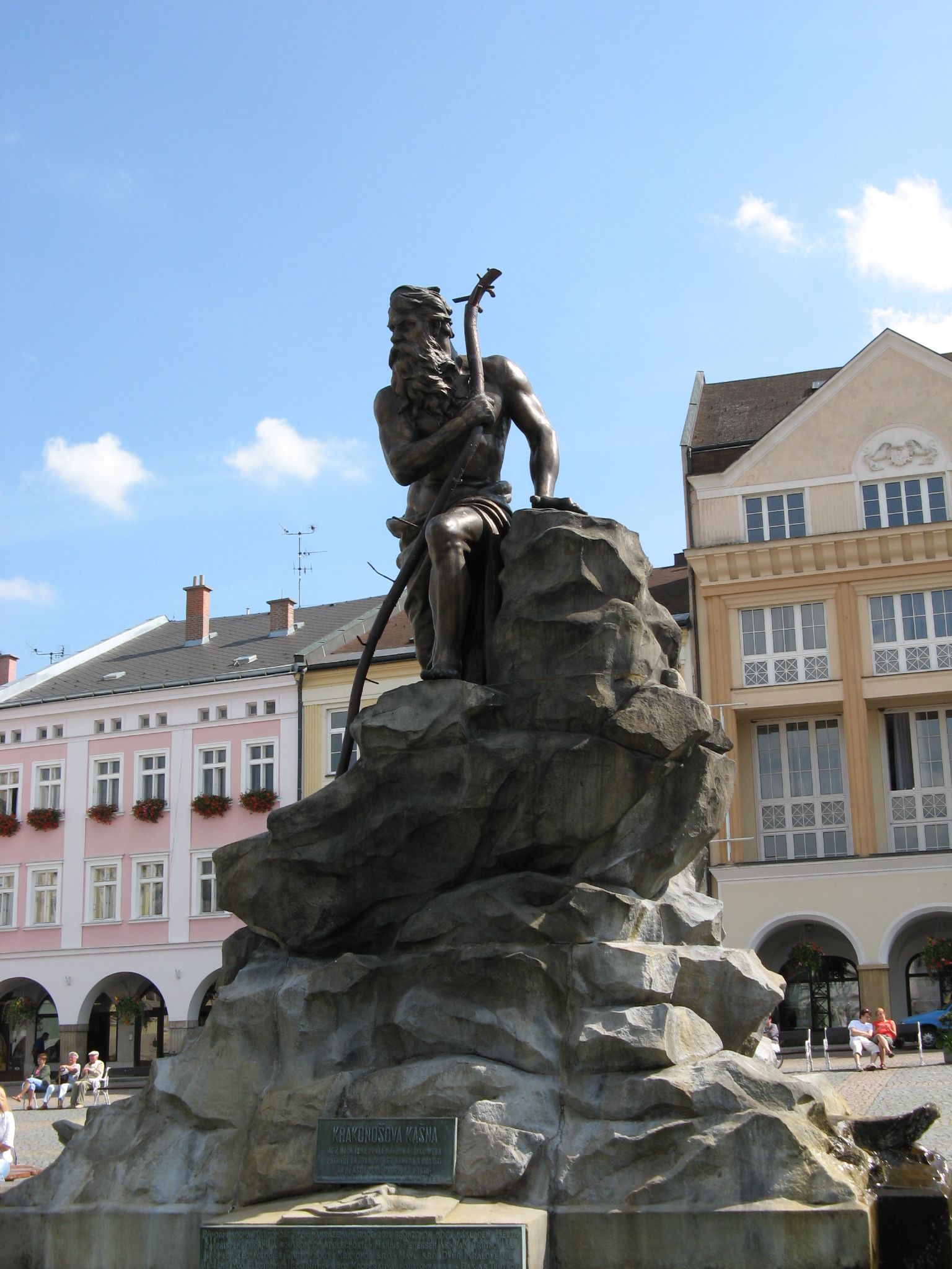 The Krakonoš Fountain in Trutnov (Czech Republic)